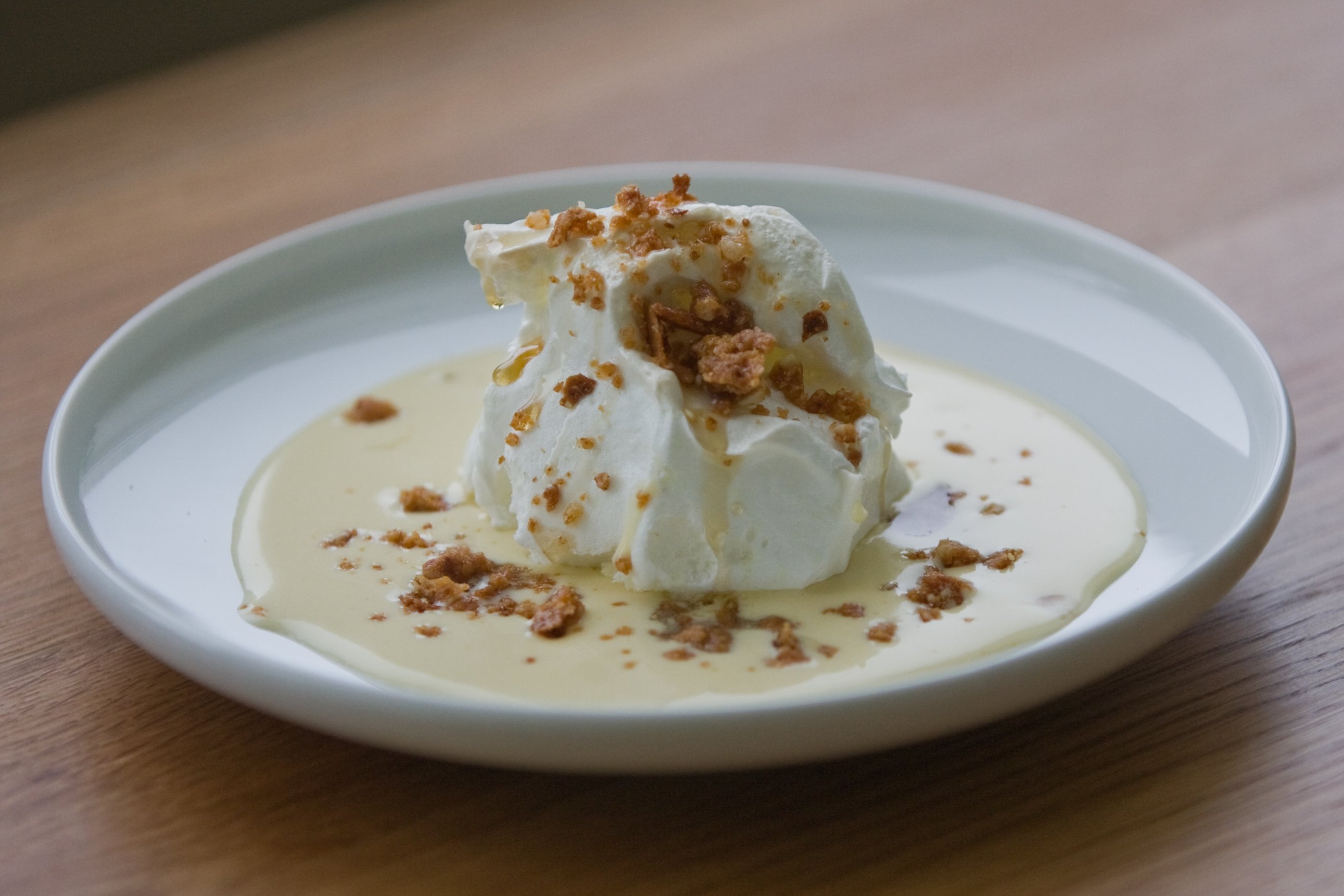 Floating island with maple syrup and almond praline.